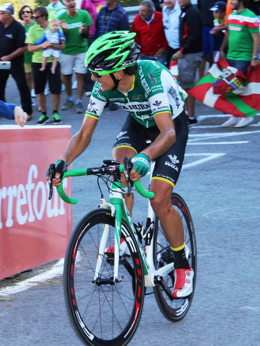 The spanish cyclist, Amets Txurruka, in the ascension of Peña Cabarga